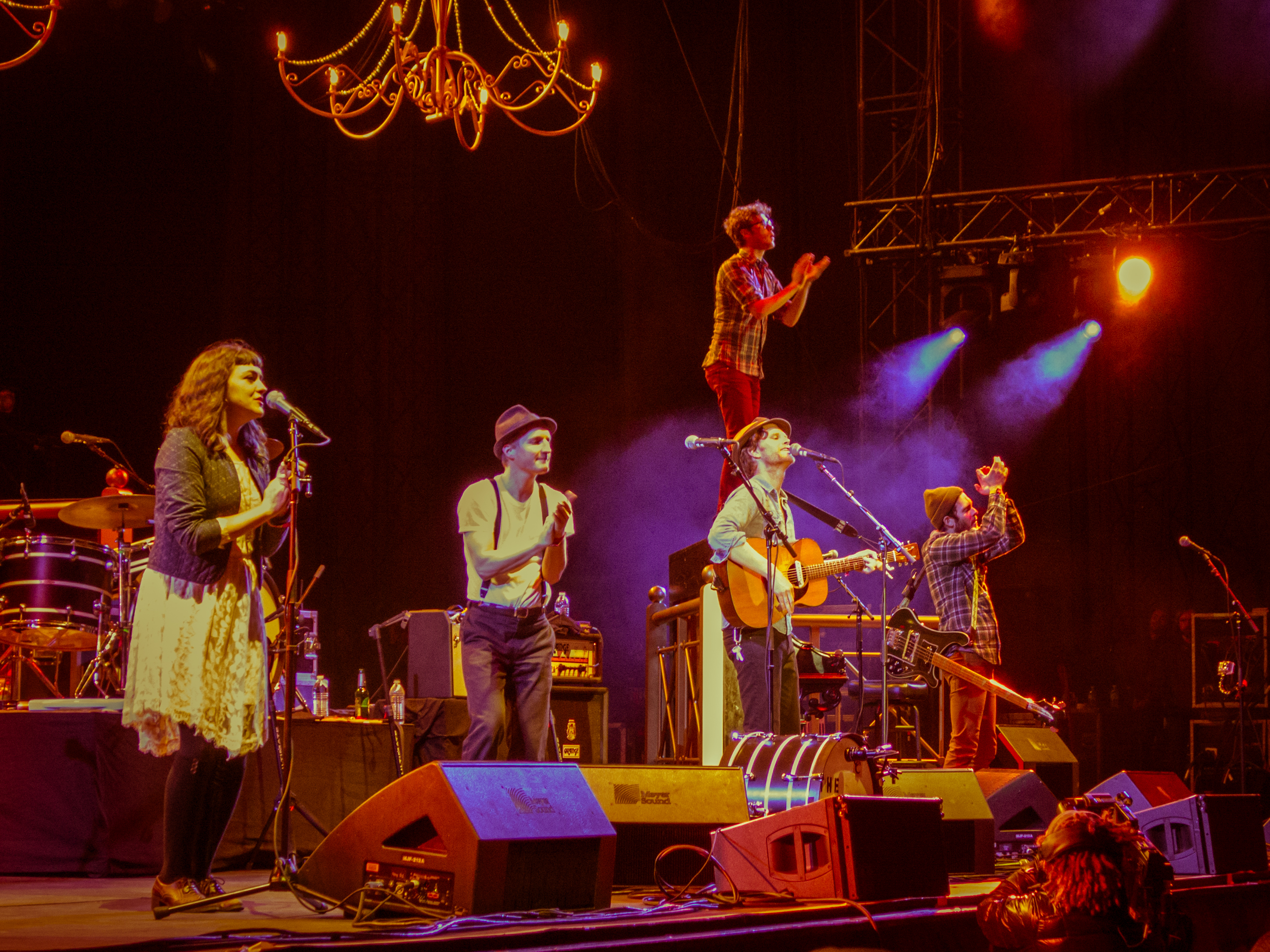 The Lumineers performing at Sasquatch in 2013